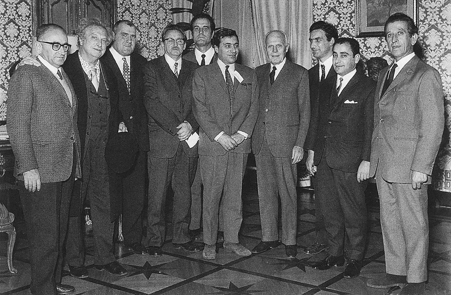 Luigi Peruzzi (at the right) in 1979 with Alessandro Pertini (4th from the right), president of the Republic of Italy, when Peruzzi was awarded the Order of Merit of the Italian Republic (Ordine al Merito della Repubblica Italiana).Luigi Peruzzi was member of an organization that resisted the nazi-occupation of Luxembourg during World War II. Later, he was an influent spokesman of the community of Italian immigrants in Luxembourg.